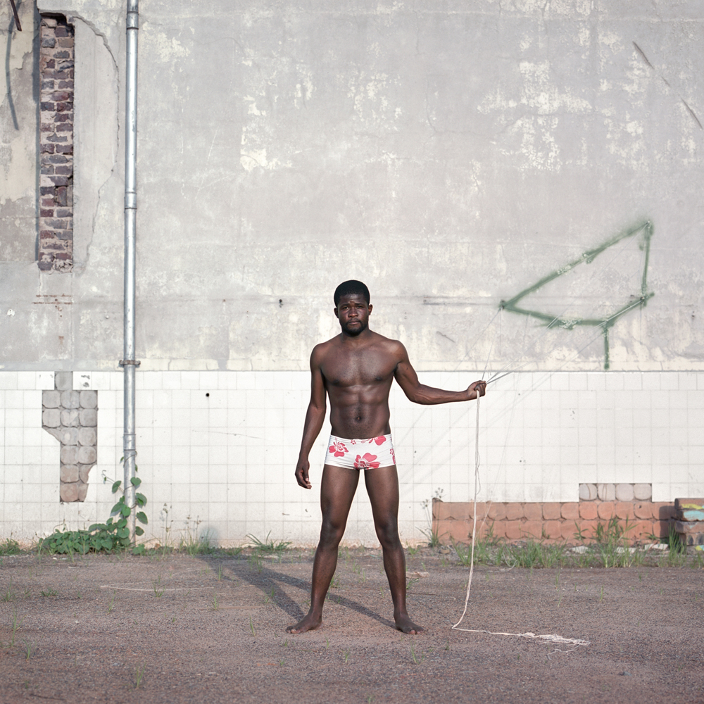 Fine art photography by Carla Liesching